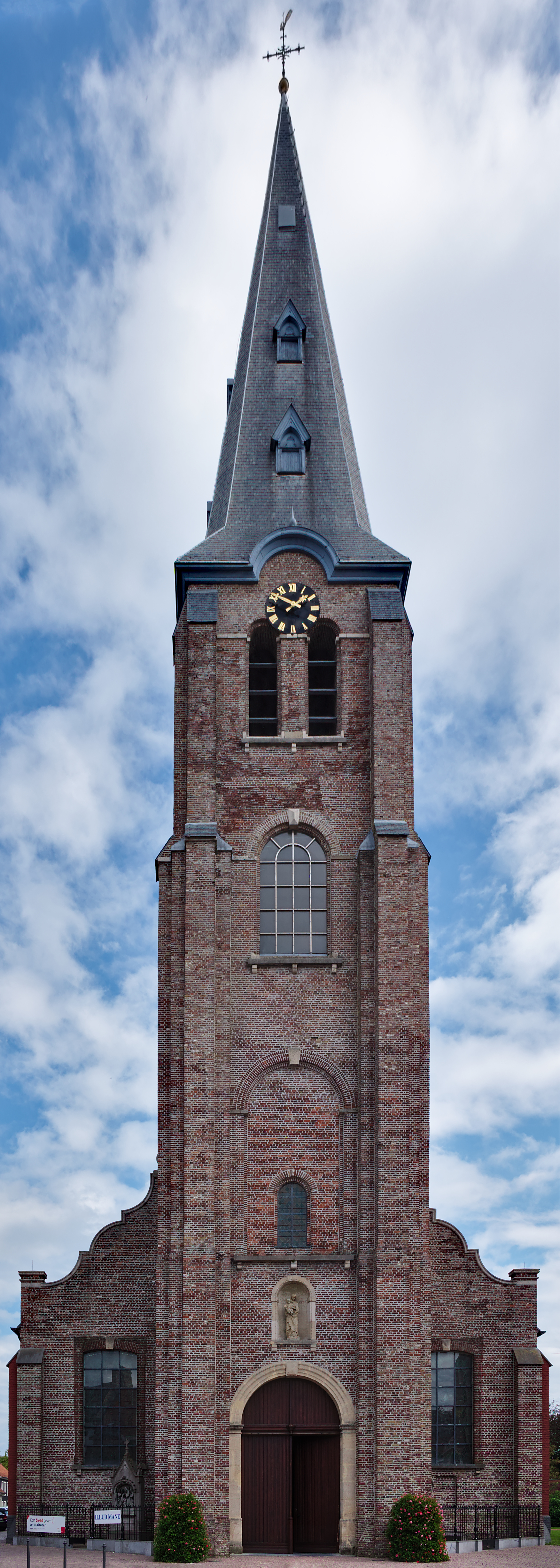 Onze-Lieve-Vlouv-ten-Hemelopnemingskerk, Ruiselede This photo of immovable heritage has been taken in the Flemish Region